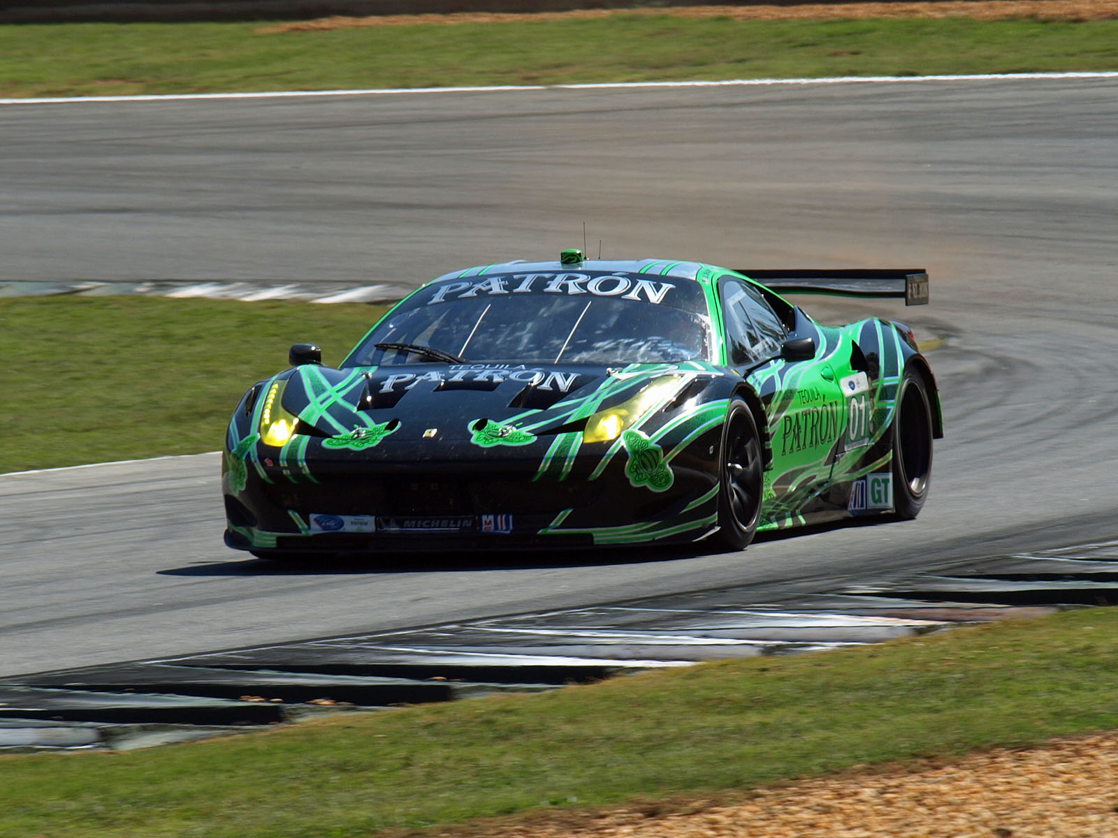 Johannes van Overbeek driving the Extreme Speed Motorsports Ferrari 458 in qualifying for the 2011 Petit Le Mans at Road Atlanta.